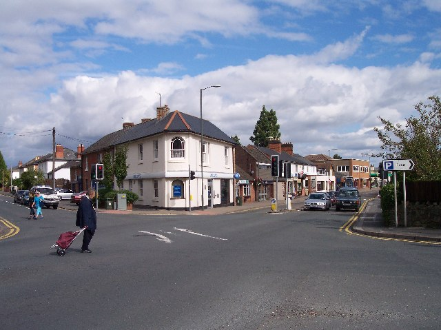 Malvern Link Crossroads. "Yes come to Malvern Link and see the exciting traffic lights change not only red and green but also briefly amber!" - so the jokes went about this important though less sophisticated part of the Malvern complex.